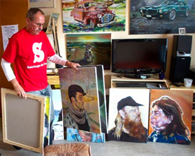 Tommy tallstig with portraits of some famous swedish artists